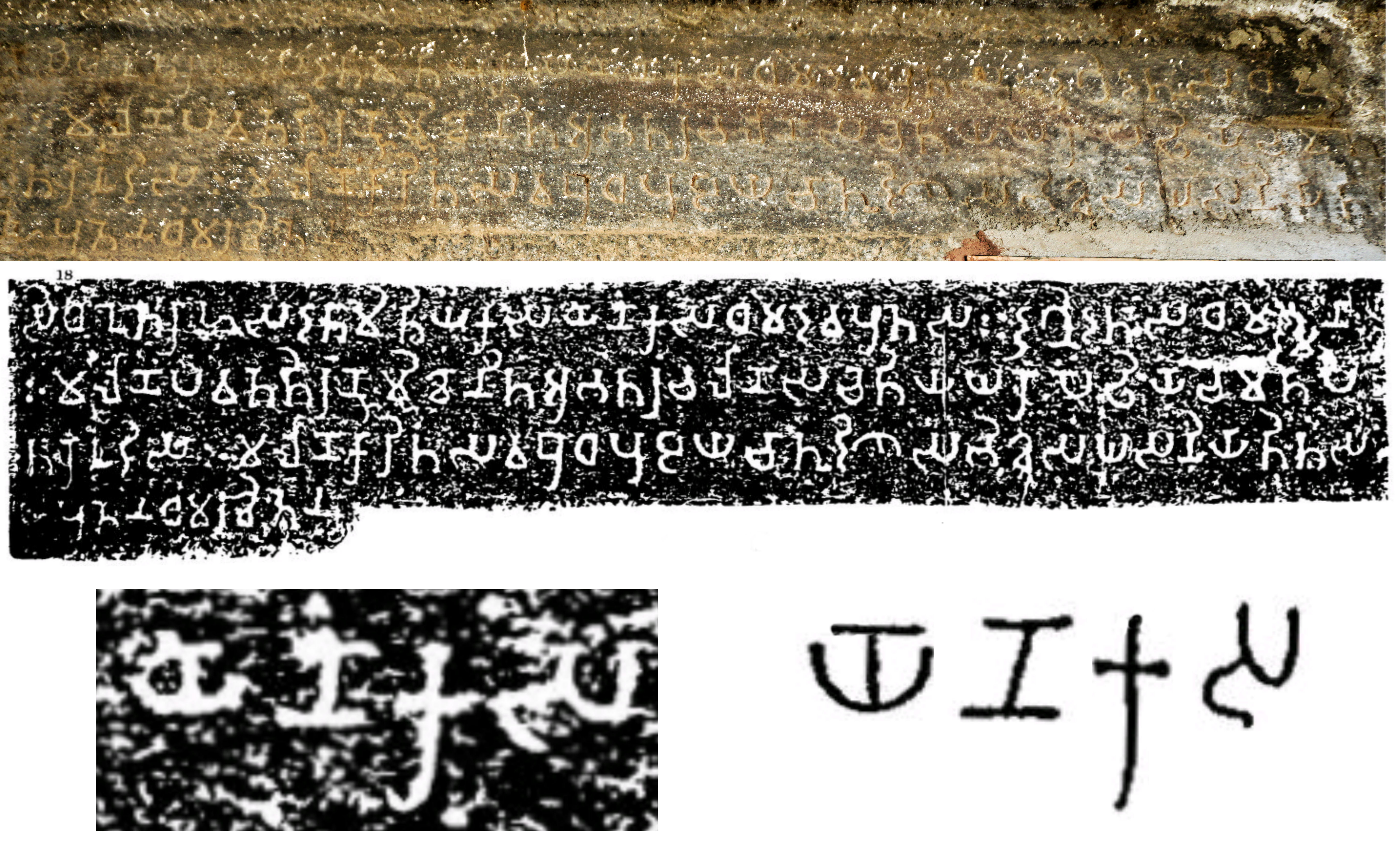 Inscription Yonakasa No.18 Cave No.17 Nasik caves, detail of the word "Yonakasa", with Nasik-period standard Brahmi letters